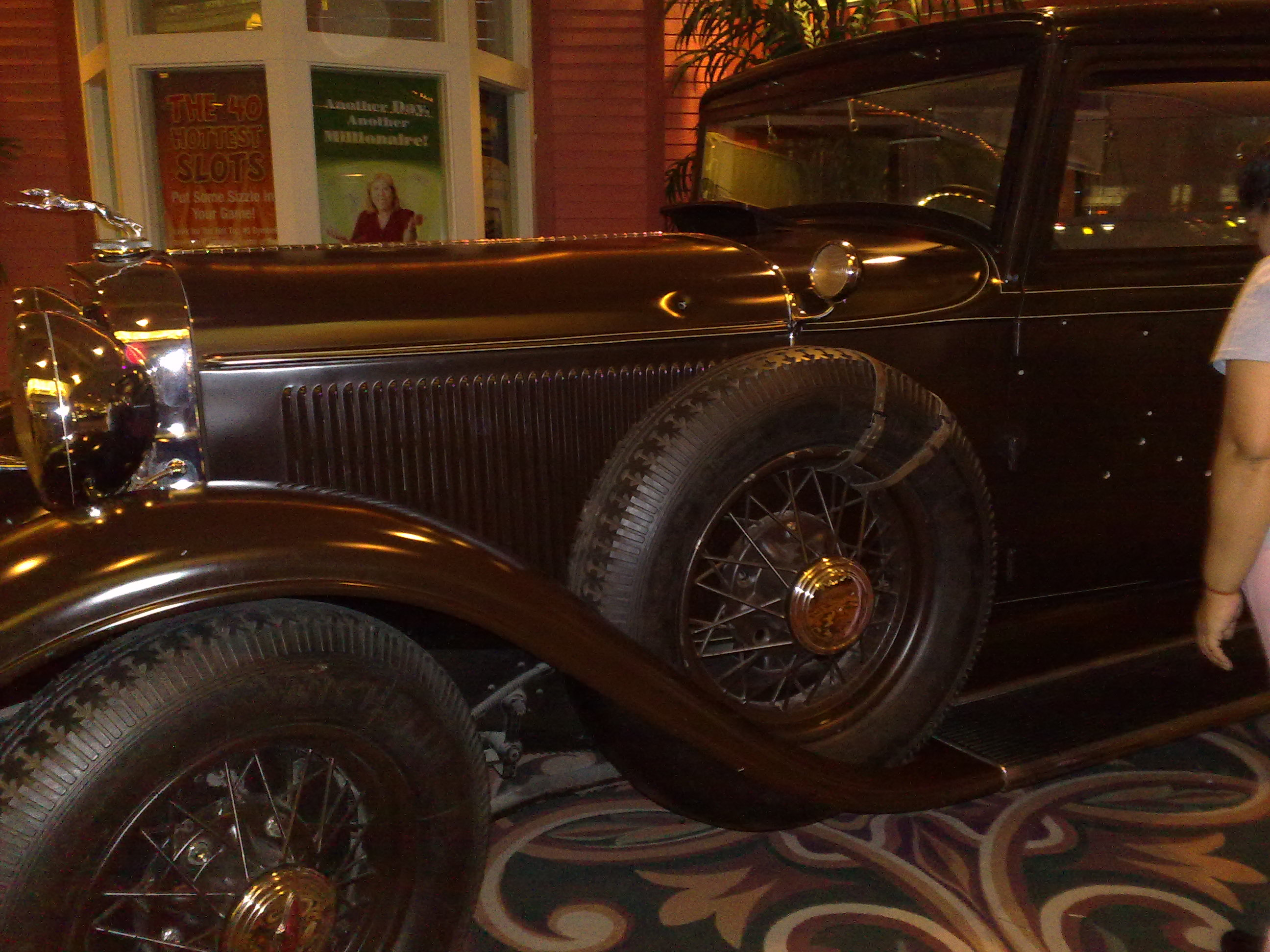 You can see bullet holes on the door